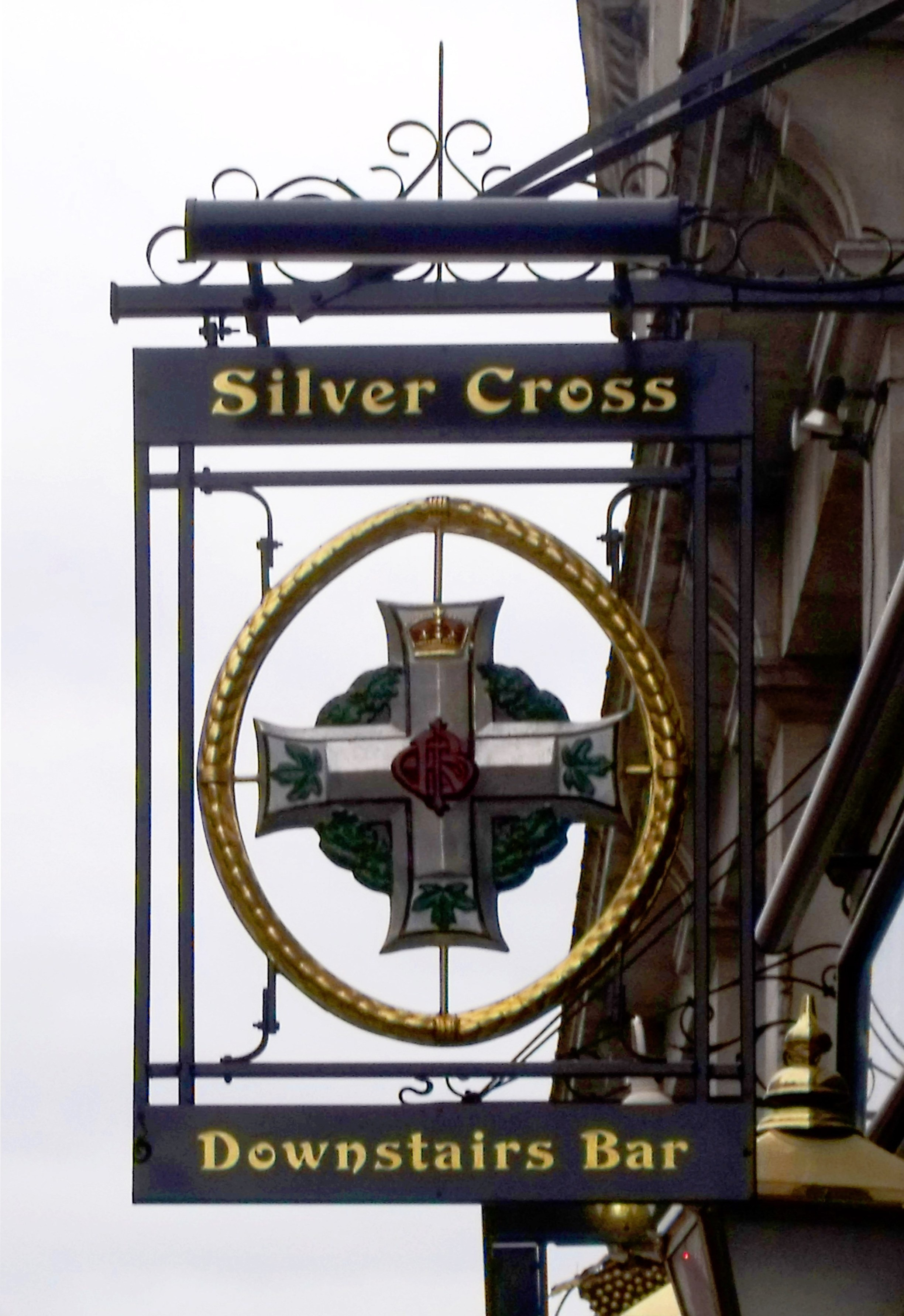 Pub sign of the Silver Cross on Whitehall. It is a short walk away from Trafalgar Square. It is near the Foreign Office and the Home Office, as well as Horse Guards.